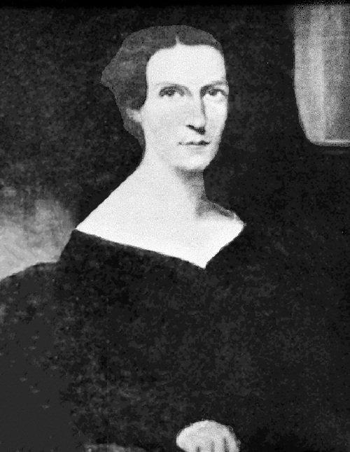 Harriet Ruggles Gold Boudinot (1805–1836) was the wife of the Cherokee Indian leader Elias Boudinot (Buck Watie).